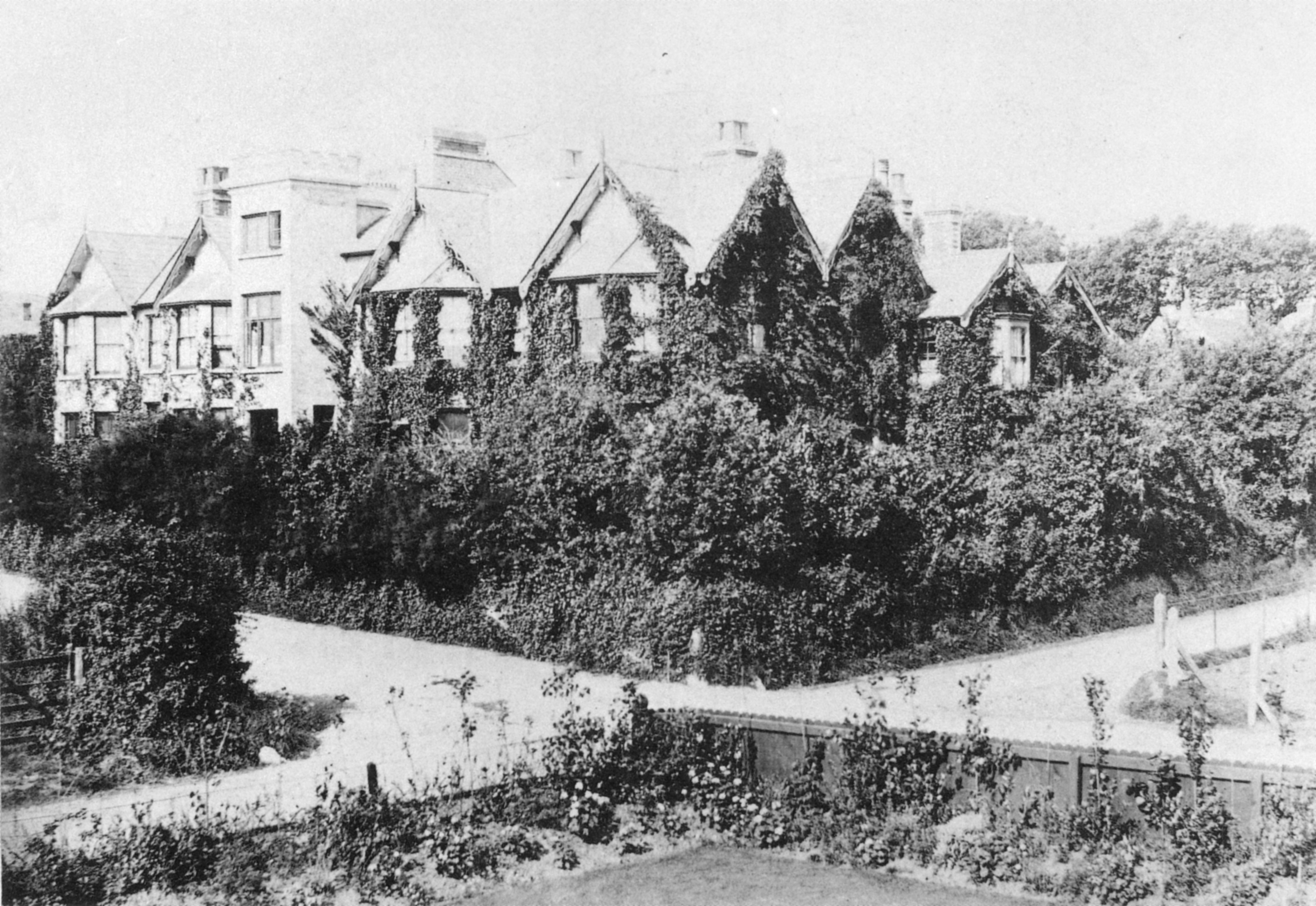 The Camerons' house, Dimbola Lodge, at Fresh Water Bay, Isle of Wight.